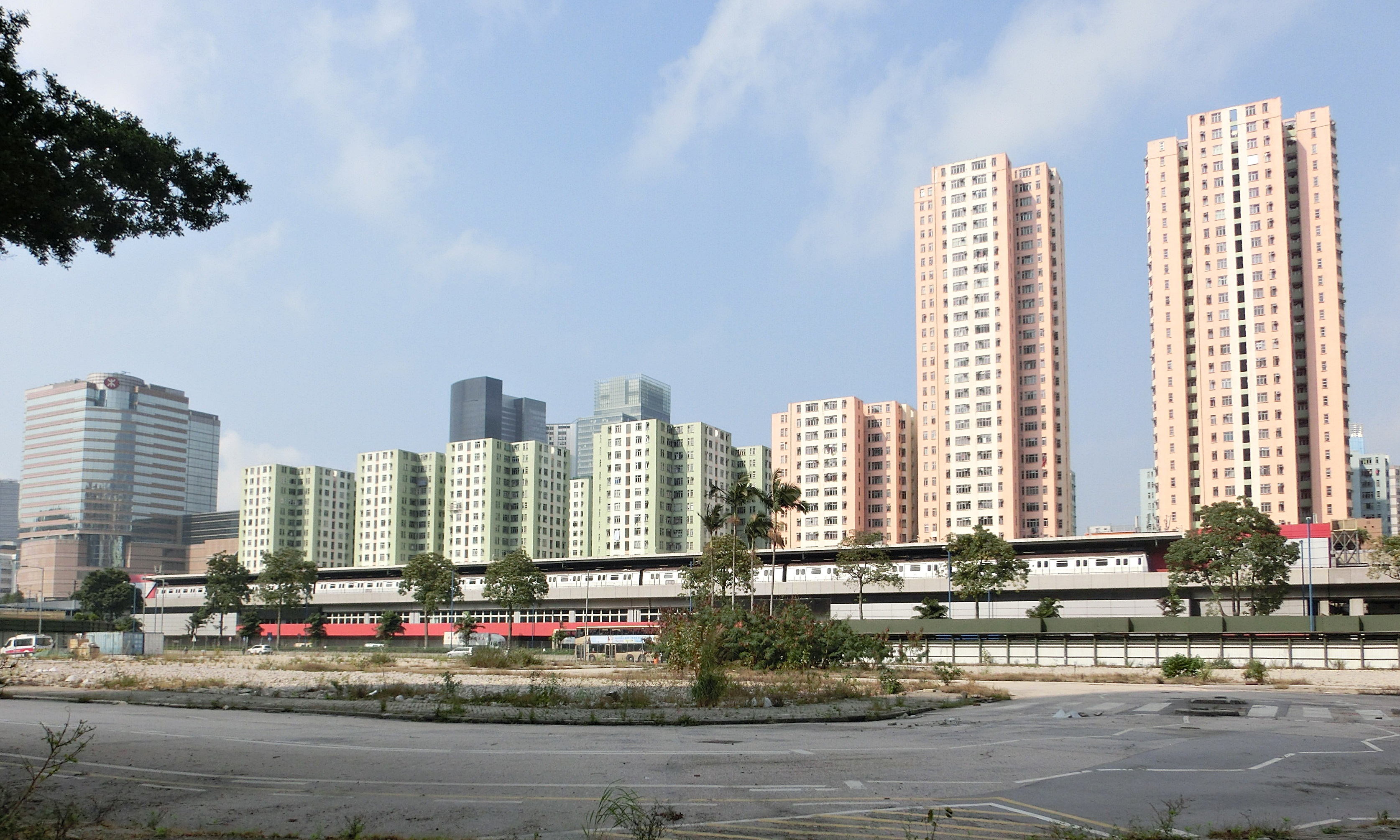 Kowloon Bay MTR Station General View, left hand side is the headquarter of MTRC and behind station is Telford Garden